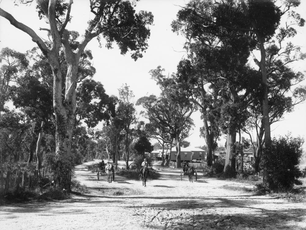 Street scene in Amiens, 1922 Rotten Row was one of the main streets in Amiens in 1922 but the name is now obsolete. Amongst the first construction in the township of Amiens were six houses built between the State Office and the railway station in the area known as Rotten Row. Opposite was a camp for surveyors and staff. The camp consisted of a group of tents with a bark cook-house and dining area. This area was called Calico Row. The name Rotten Row was associated with the English origin of settlers to the area. (Description supplied with photograph.). In this view there is a group of houses to the right of the unsealed street. Two horse and buggies and one mounted horseman can be seen in the foreground.